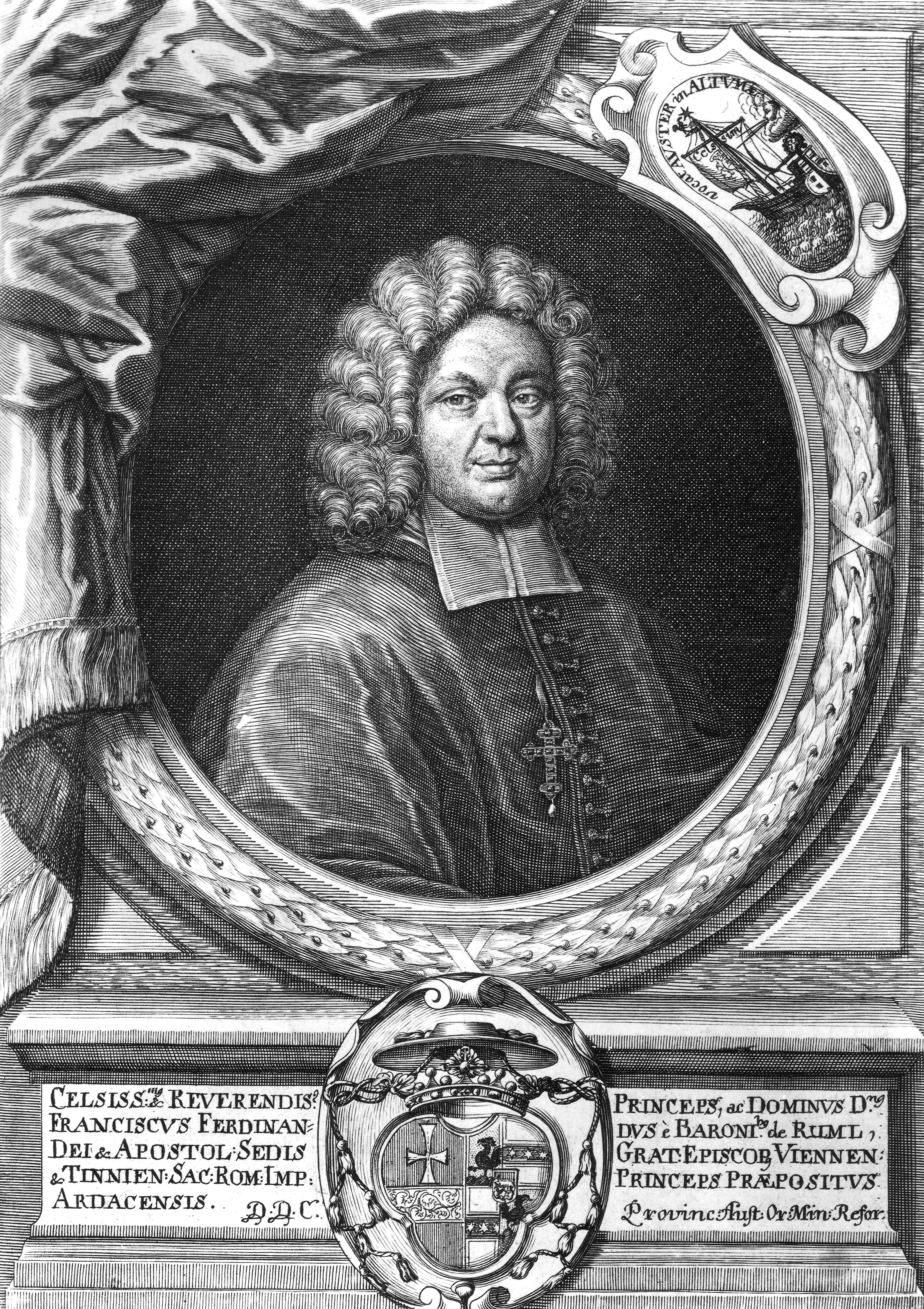 Prince bischop of the diocese of Venna, Franz Ferdinand von Rummel (1644 - 1716). Edging from Bildarchiv Austria. Bildplattform der Österreichischen Nationalbibliothek.